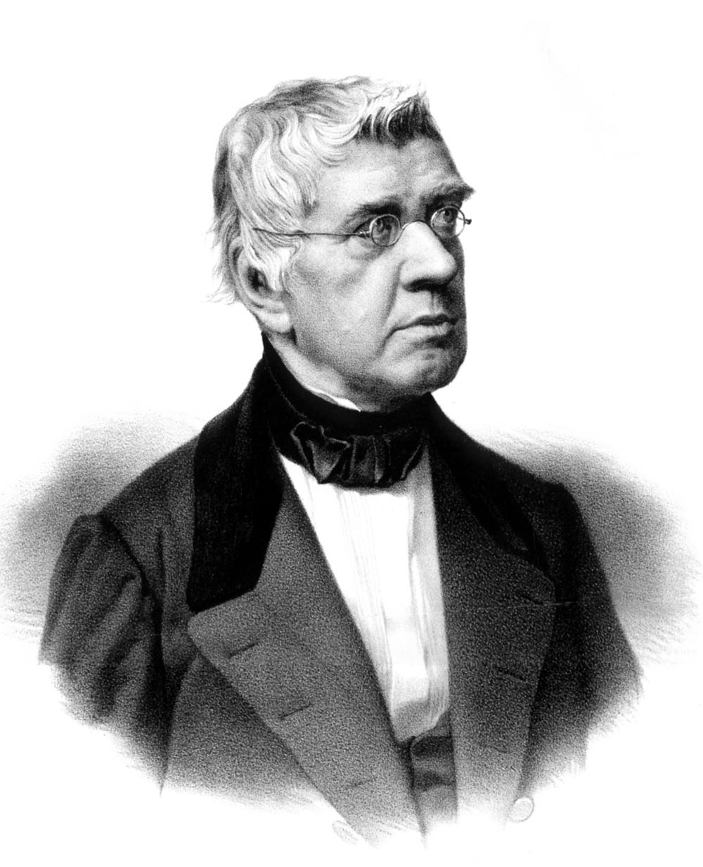 Count Viktor Nikitich Panin (9 April (28 March Old Style) 1801 Moscow–13 April (1 April Old Style) 1862 Nice) was conservative Russian Minister of Justice (1841–1862).